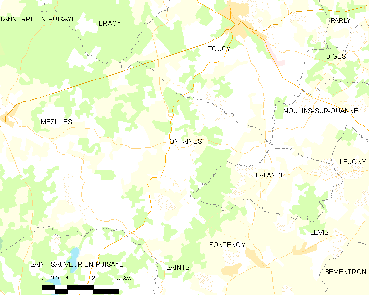 Map of French municipality Fontaines